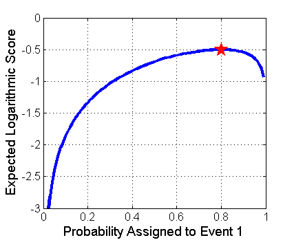 Expected logarithmic score when true probability is 0.8. Matlab code given below.